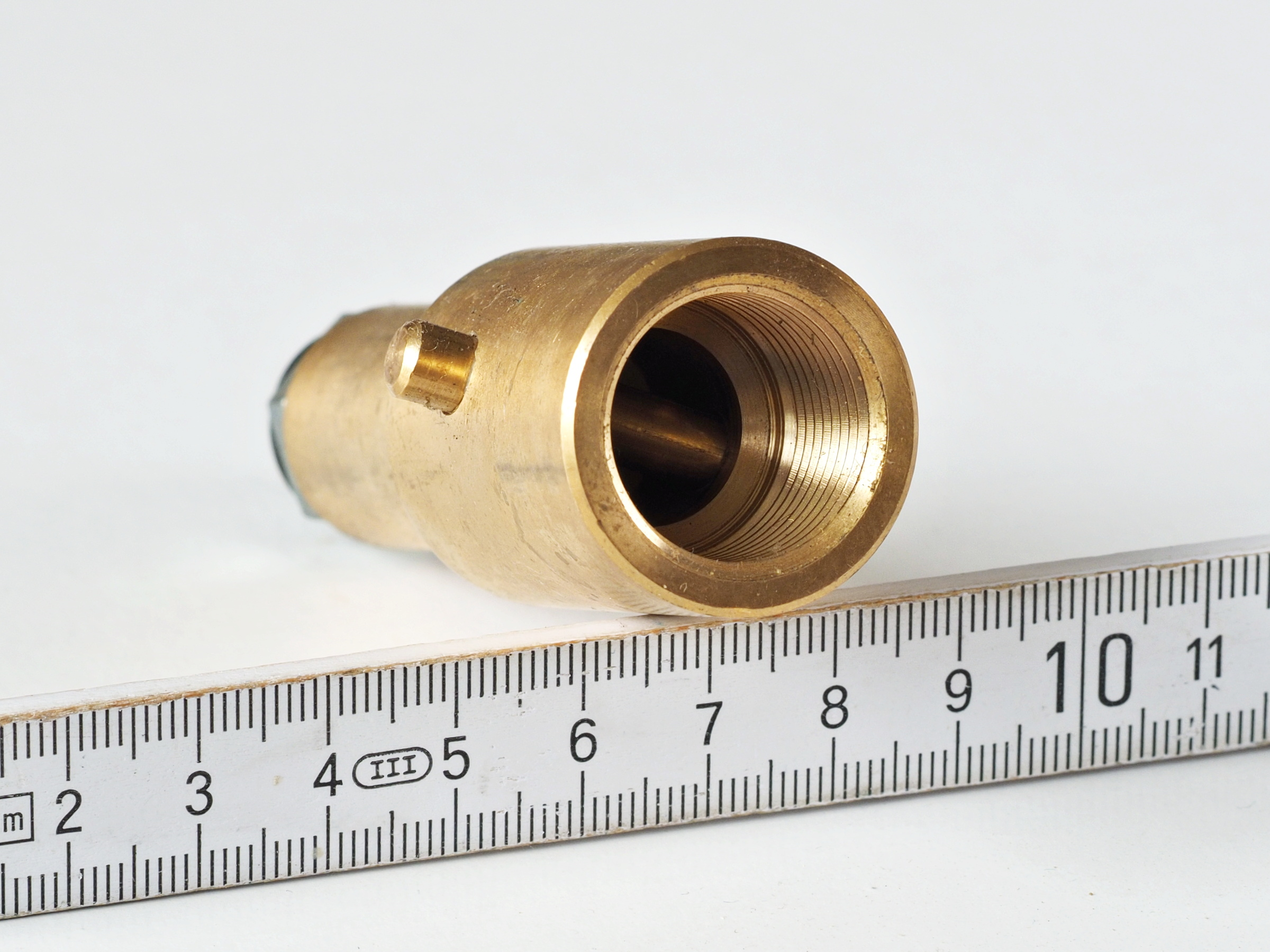 Bayonet connector for LPG fueling